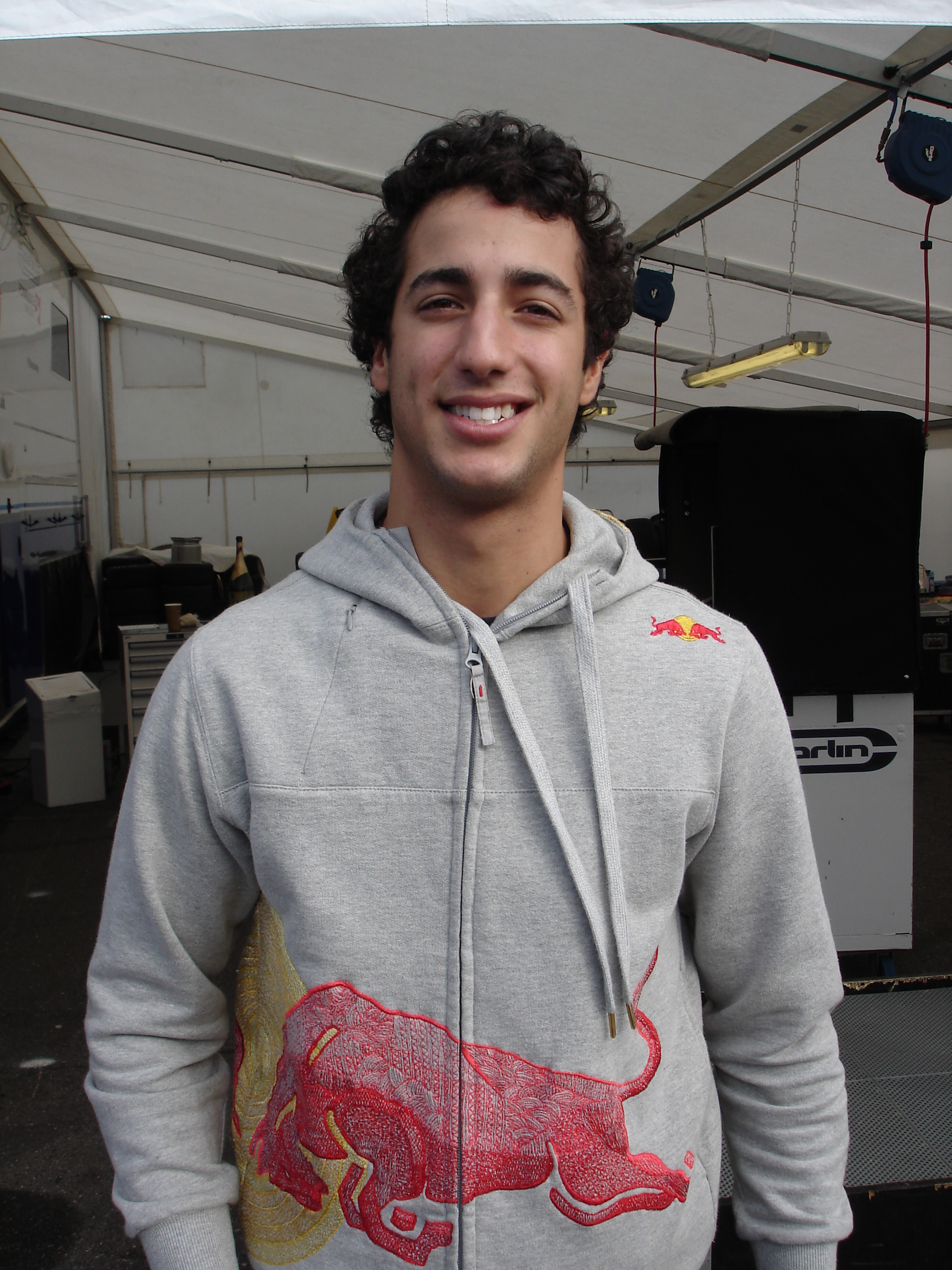 Daniel Ricciardo: the photo was taken during 2009's second DTM race weekend at Hockenheim